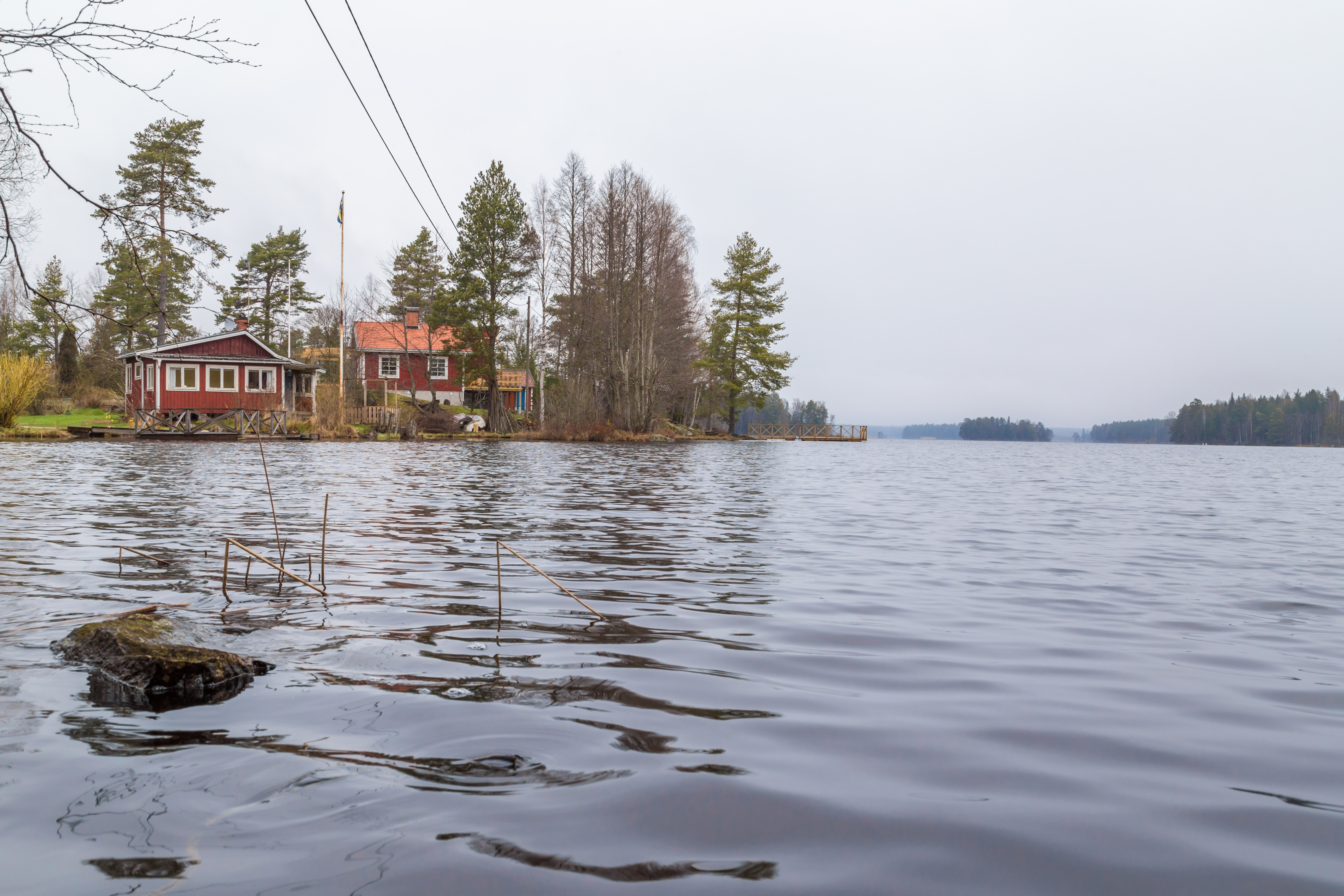 Lake Olof-Jons damm, Sala Municipality, Västmanland County, Sweden.